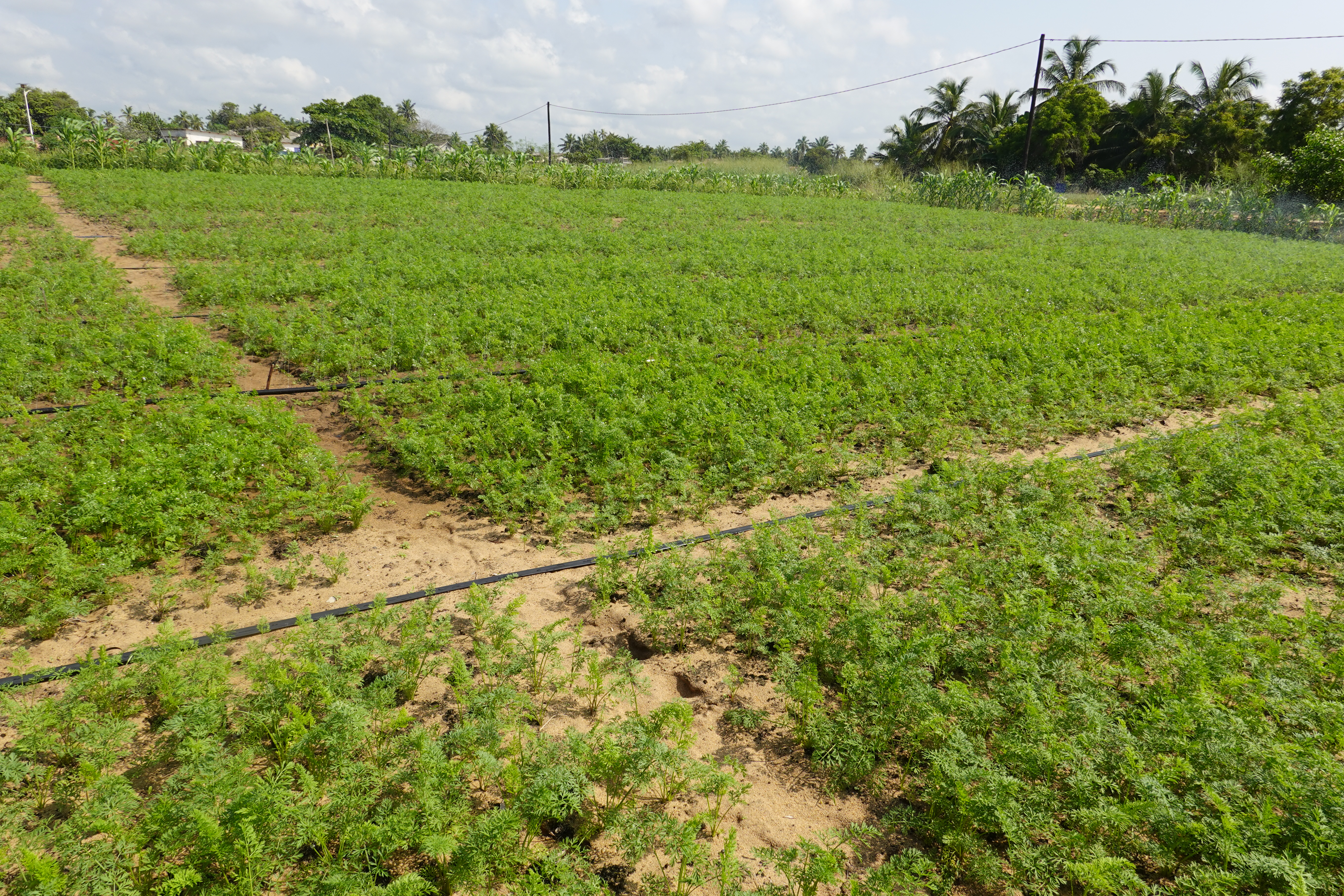 carrots growing, water hose